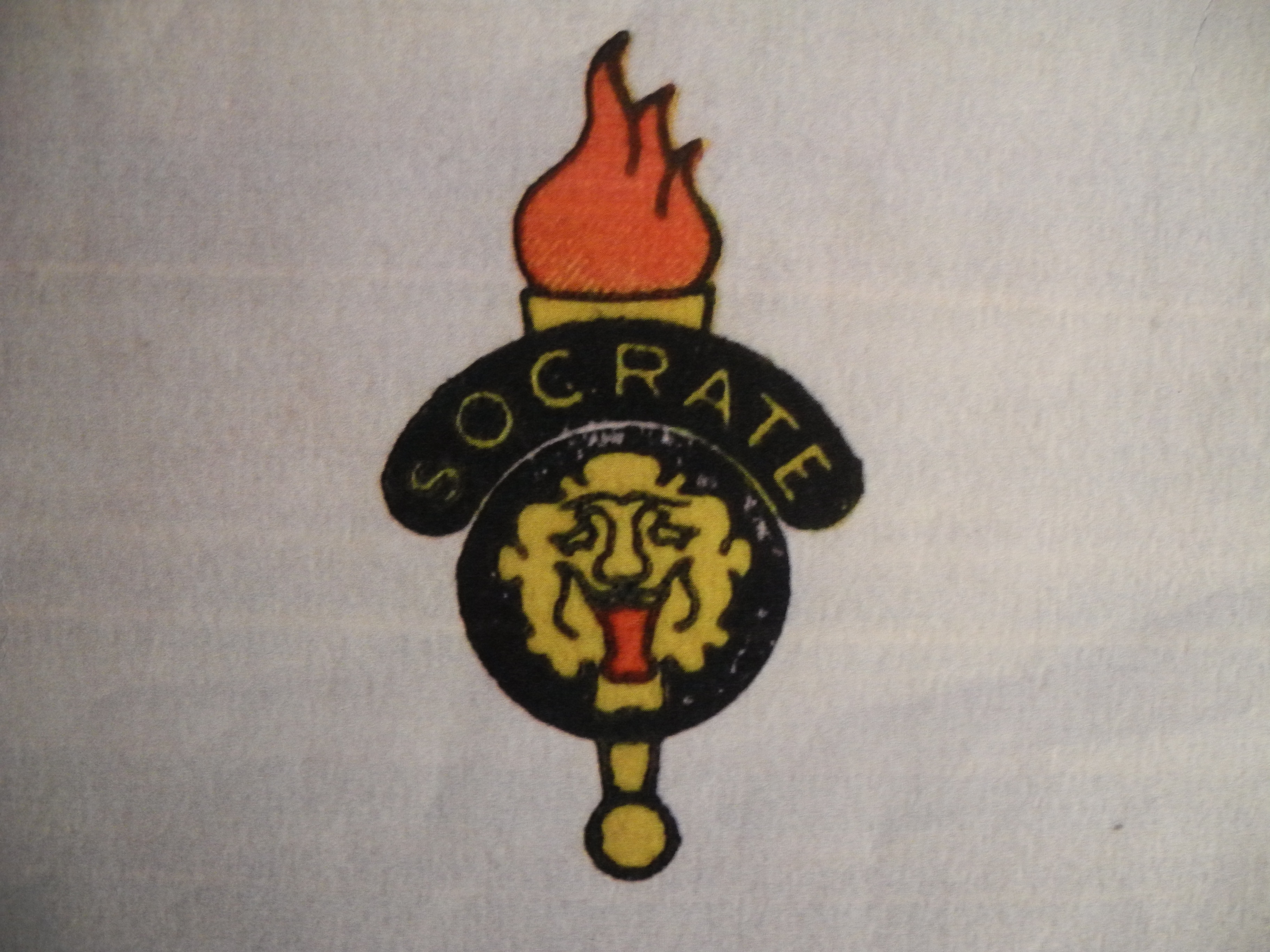 Badge of the Belgian Resistance Network "Socrate" in WWII